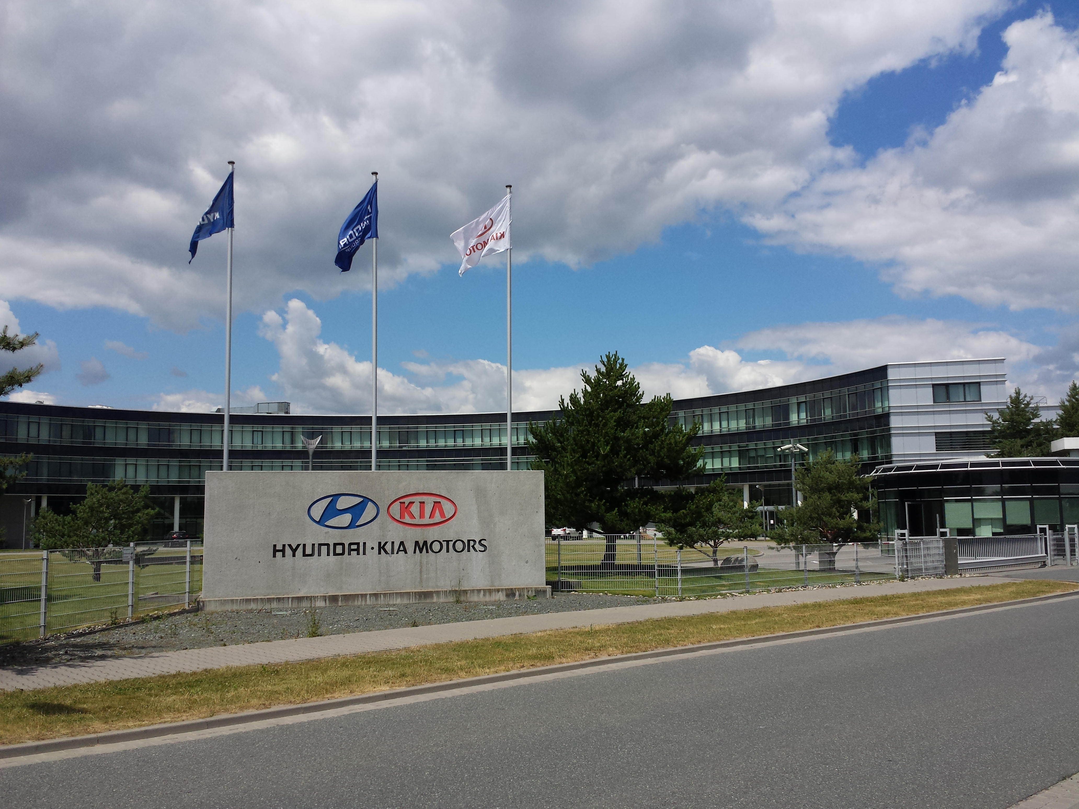 Joint European Development Center of Hyundai and Kia Motors in Rüsselsheim, Germany